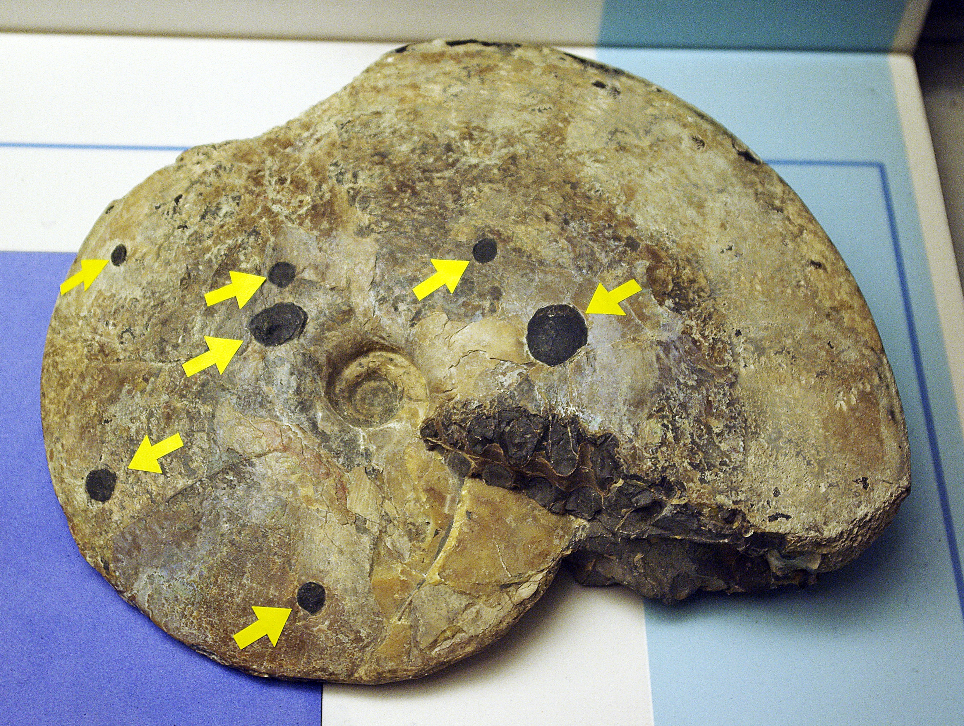 Sheel of ammonite (fossil) with sign of bites from reptile